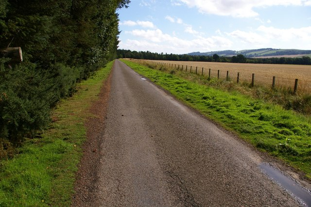 Country Road near Battledykes Cottages, Angus